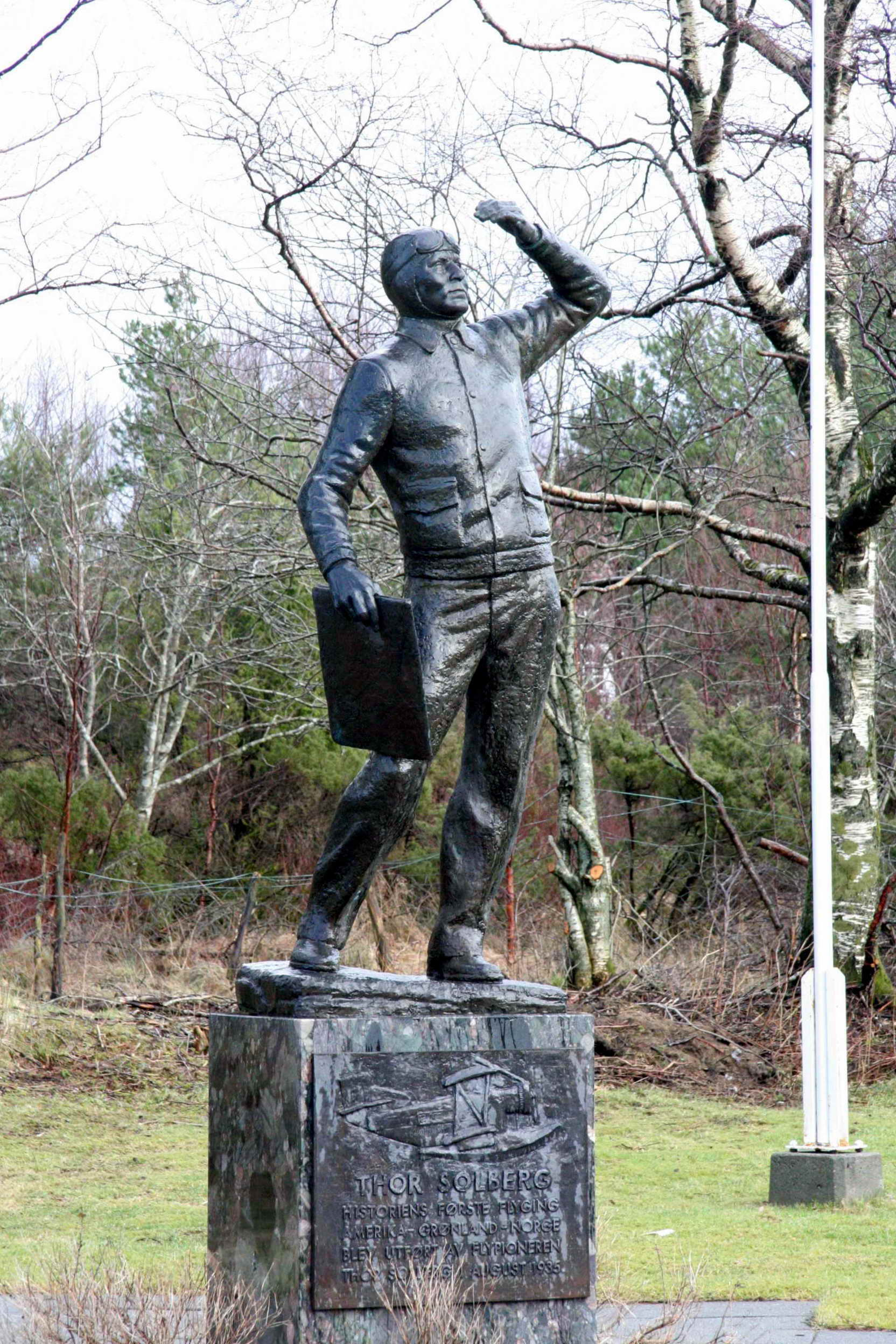 Thor Solberg